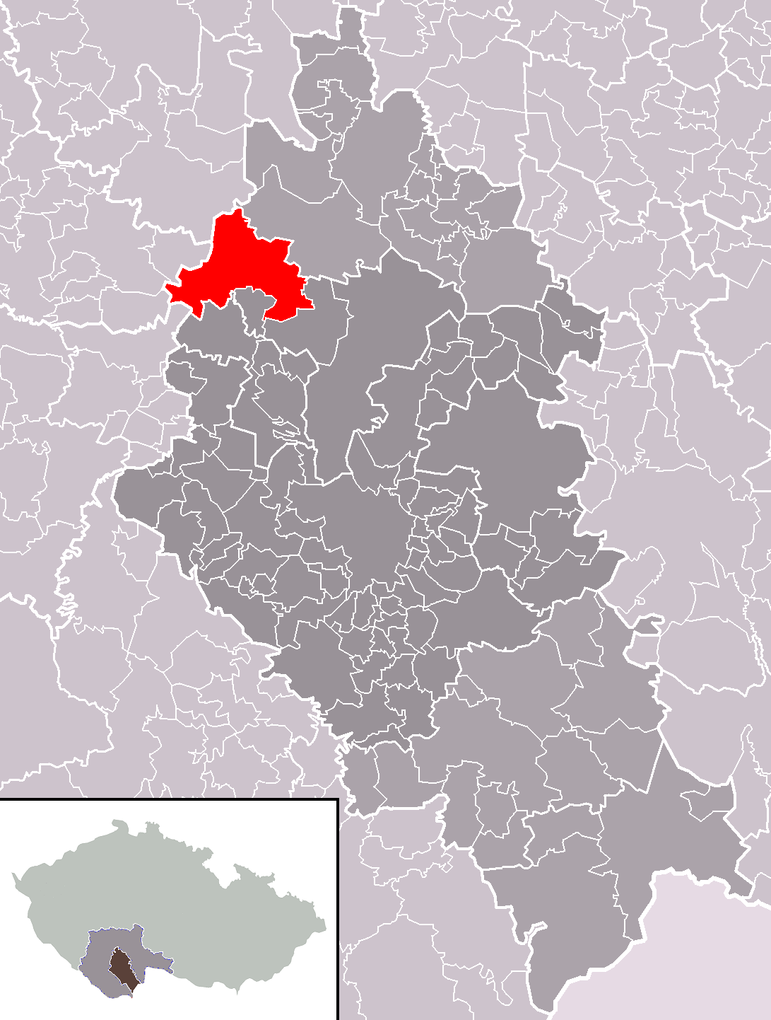 Location of Dříteň municipality within České Budějovice District and administrative area of České Budějovice as a Municipality with Extended Competence.